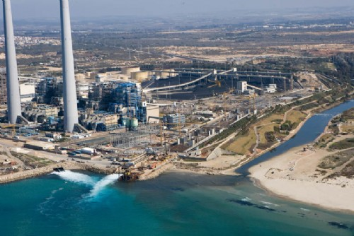 Environment of Israel